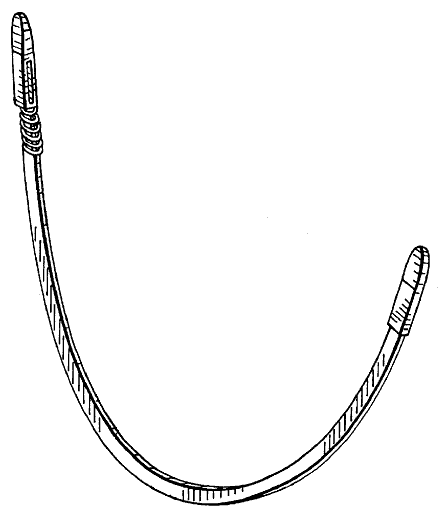 Bra underwire from US patent #6468130